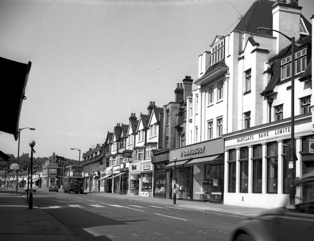 Shopping parade, Brighton Road, Coulsdon, Surrey Shopping parades change rapidly, and some of the shops here in 1968 have vanished not just locally but nationally - Mac Fisheries being an example. The National Provincial Bank merged with the Westminster Bank to become Natwest - and the branch seen here at the end is now an insurance office. Sainsbury's have gone from here also. The RT bus seen is in green London Country livery on Route 414, a very long one from Horsham to West Croydon via Dorking, Reigate and Redhill.